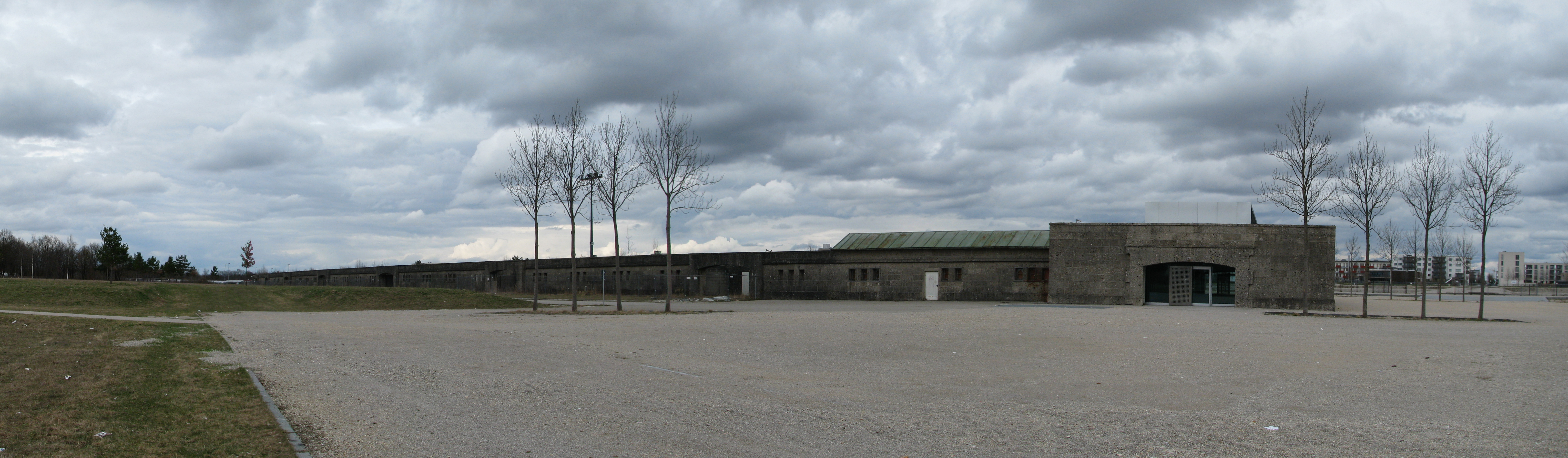 Zeppelintribünen former Munich Airport Riem